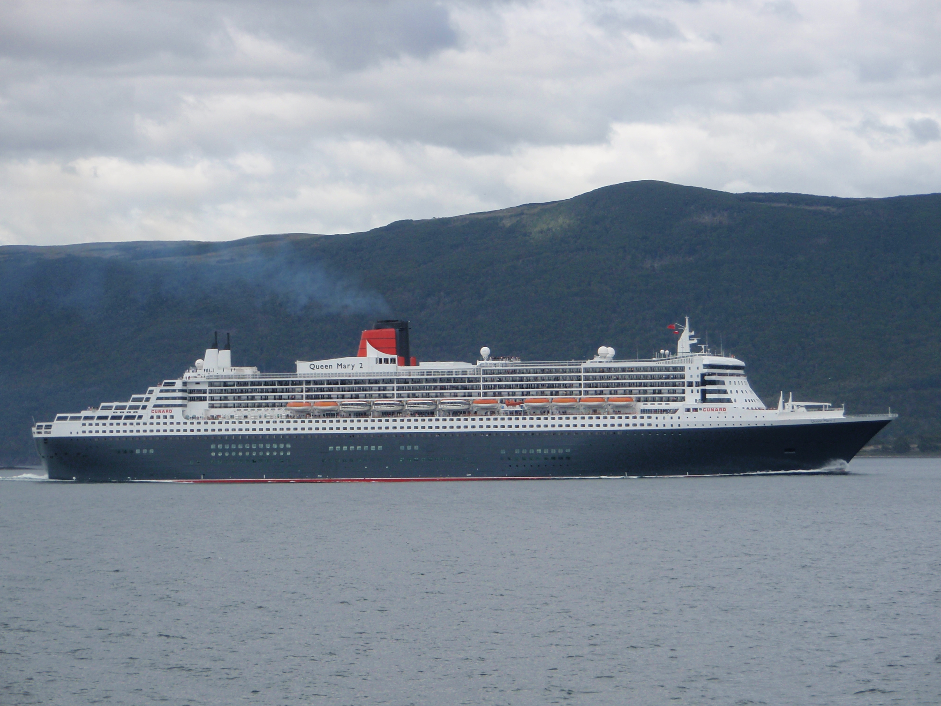 Queen Mary 2 in Ushuaia